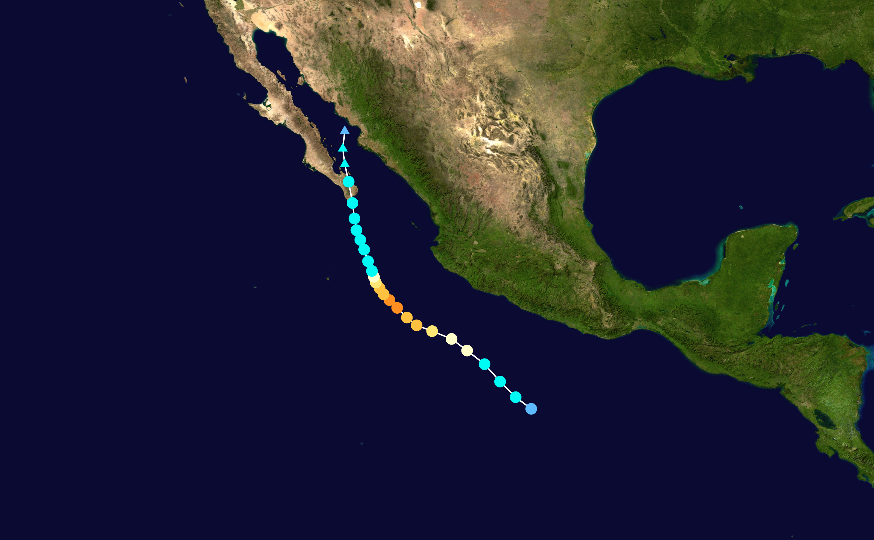 Track map of Hurricane Bud of the 2018 Pacific hurricane season. The points show the location of the storm at 6-hour intervals. The colour represents the storm's maximum sustained wind speeds as classified in the Saffir–Simpson scale (see below), and the shape of the data points represent the nature of the storm, according to the legend below. Saffir–Simpson scale Tropical depression≤38 mph≤62 km/h Category 3111–129 mph178–208 km/h Tropical storm39–73 mph63–118 km/h Category 4130–156 mph209–251 km/h Category 174–95 mph119–153 km/h Category 5≥157 mph≥252 km/h Category 296–110 mph154–177 km/h Unknown Storm type Tropical cyclone Subtropical cyclone Extratropical cyclone / Remnant low / Tropical disturbance / Monsoon depression